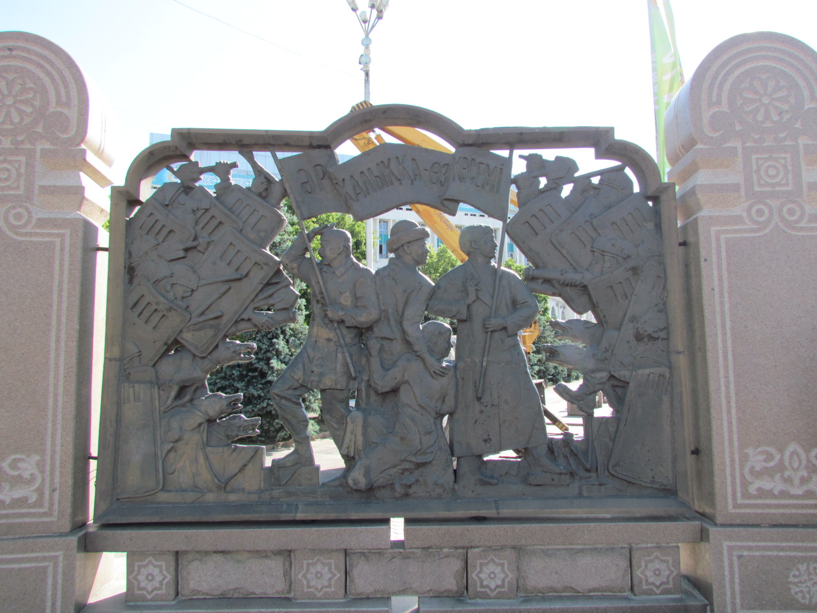 Fragment of the Independence Monument in Almaty